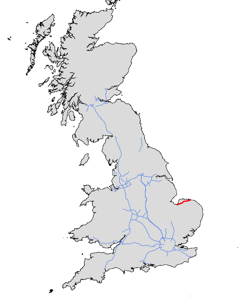 Created using Image:UK motorway map - M1.png by Michiel1972 and re-edited for use on A149 road by stavros1